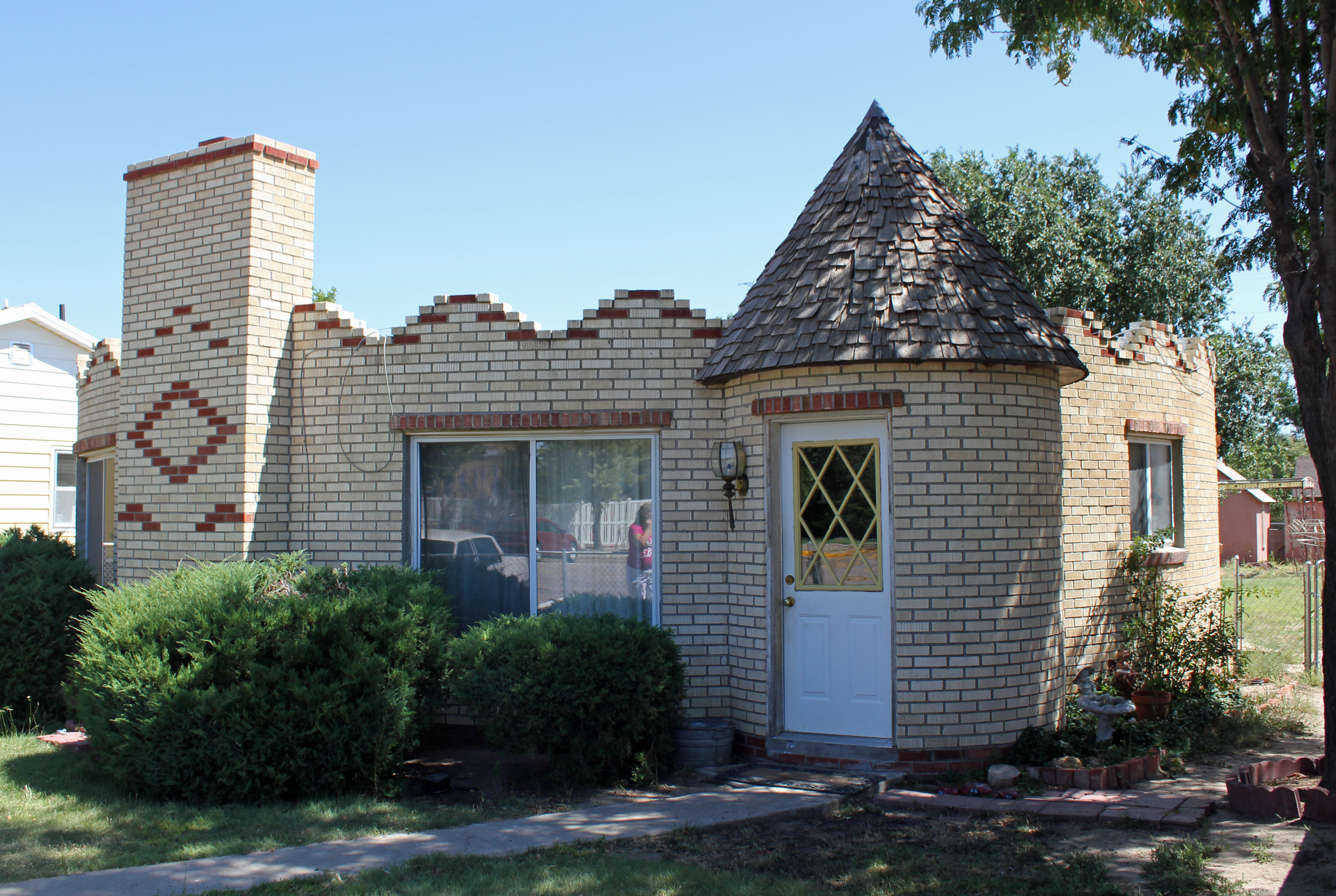 The Crow–Hightower House, located at 909 Maine Street in Eads, Colorado. The property is listed on the National Register of Historic Places.